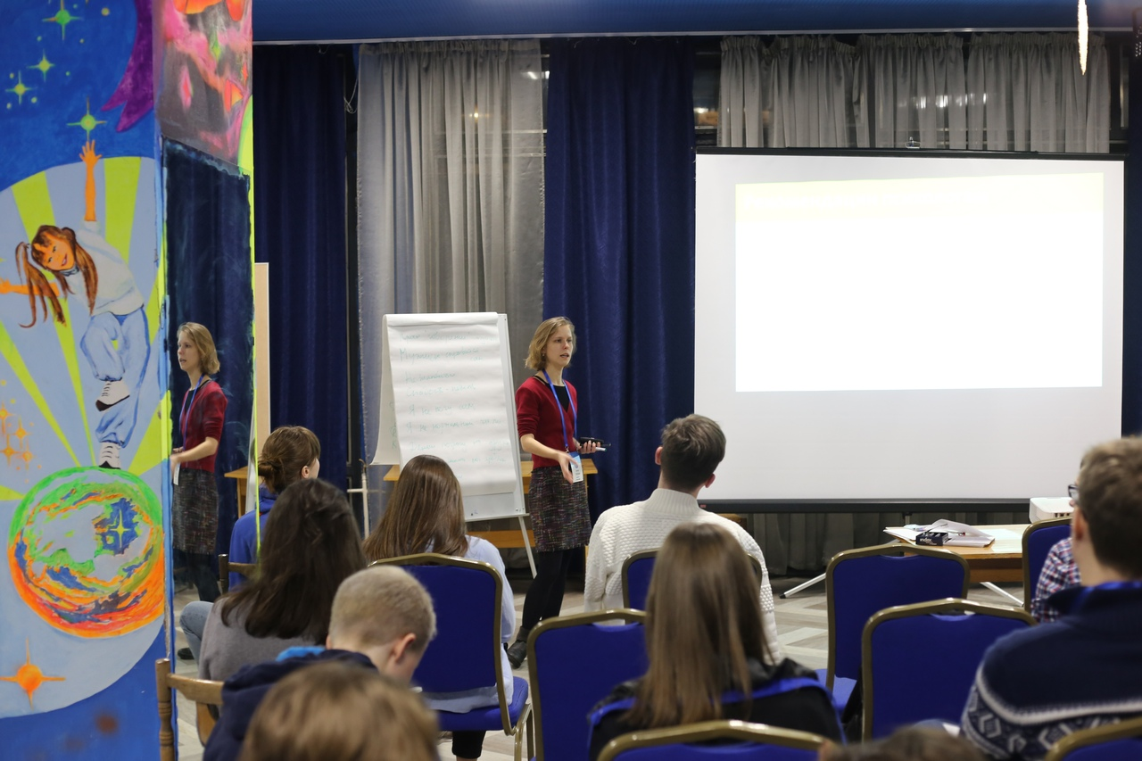 Lecture on WPS SPbU-2019